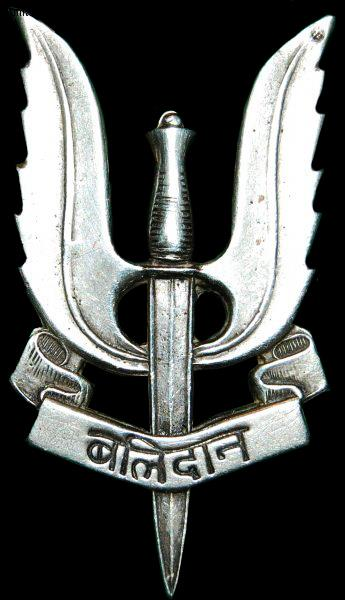 Para Commandos Insignia